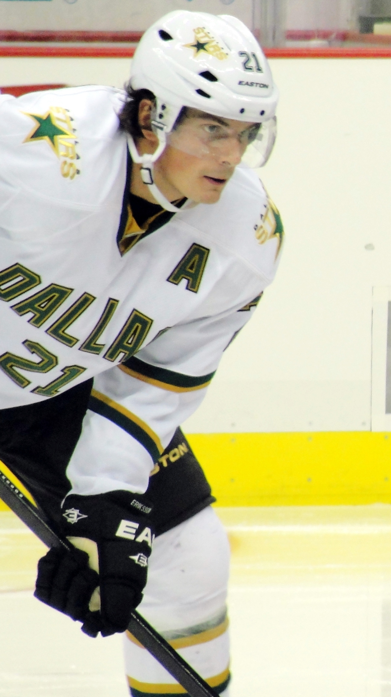 Loui Eriksson of the Dallas Stars during a November 11, 2011 game against the Pittsburgh Penguins at Consol Energy Center in Pittsburgh, PA.